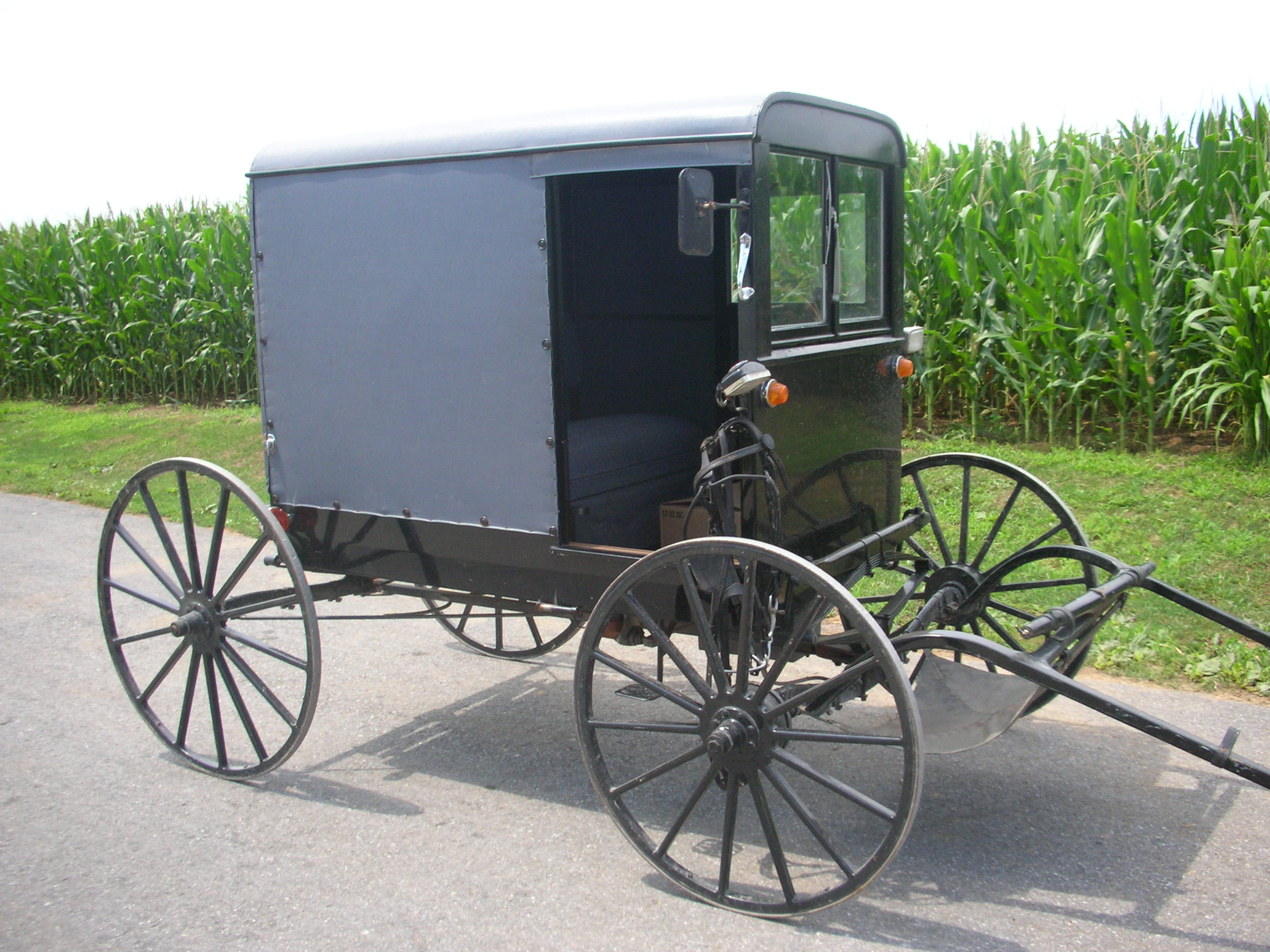 An Amish Buggy in Lancaster County, USA